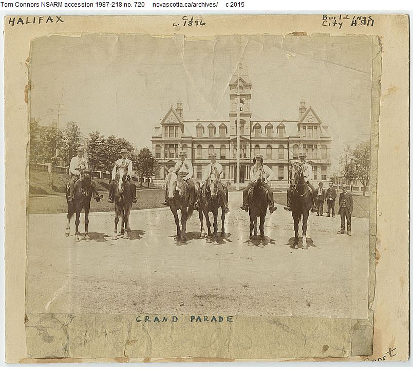 Horsemen on the Grand Parade with Halifax City Hall in the background. Reference no.: Tom Connors NSARM accession 1987-218 no. 720